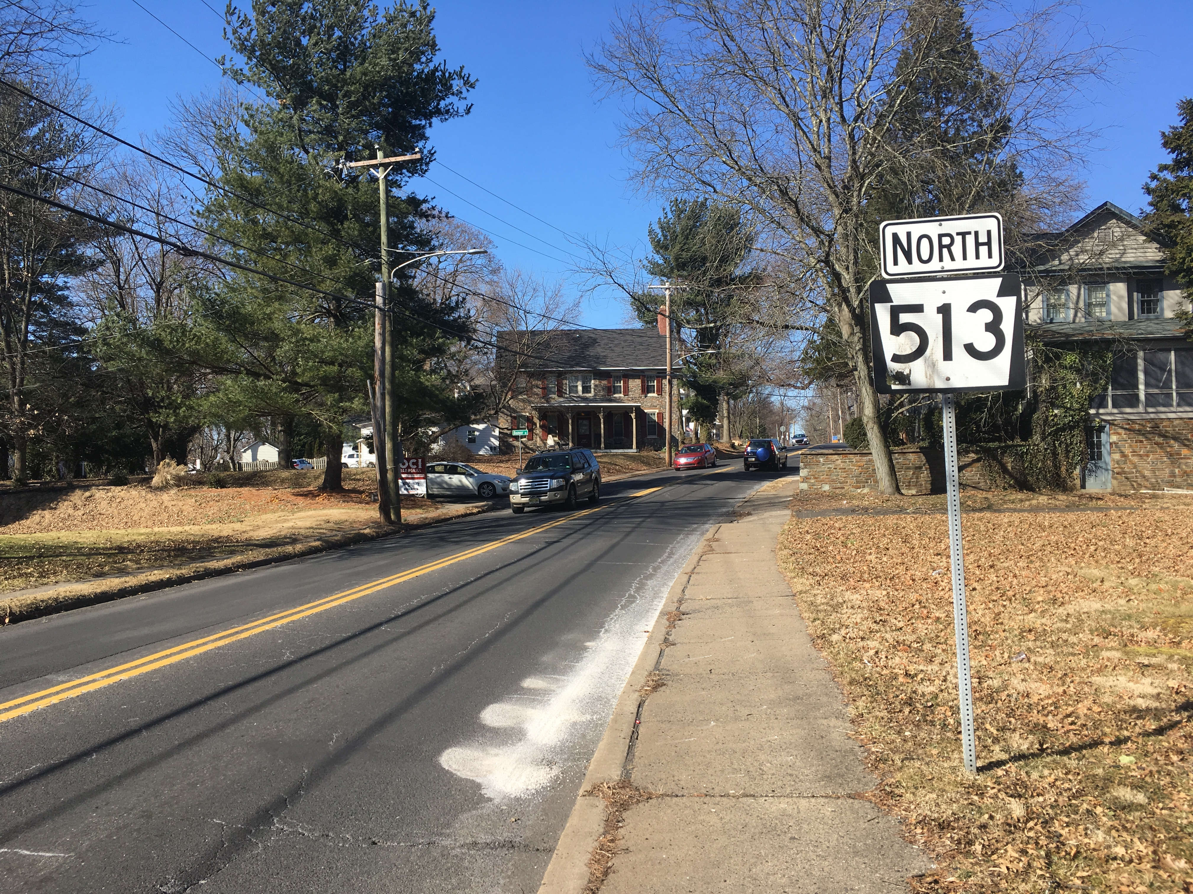 Northbond Pennsylvania Route 513 (Bellevue Avenue) past the intersection with Trenton Road in Hulmeville, Pennsylvania